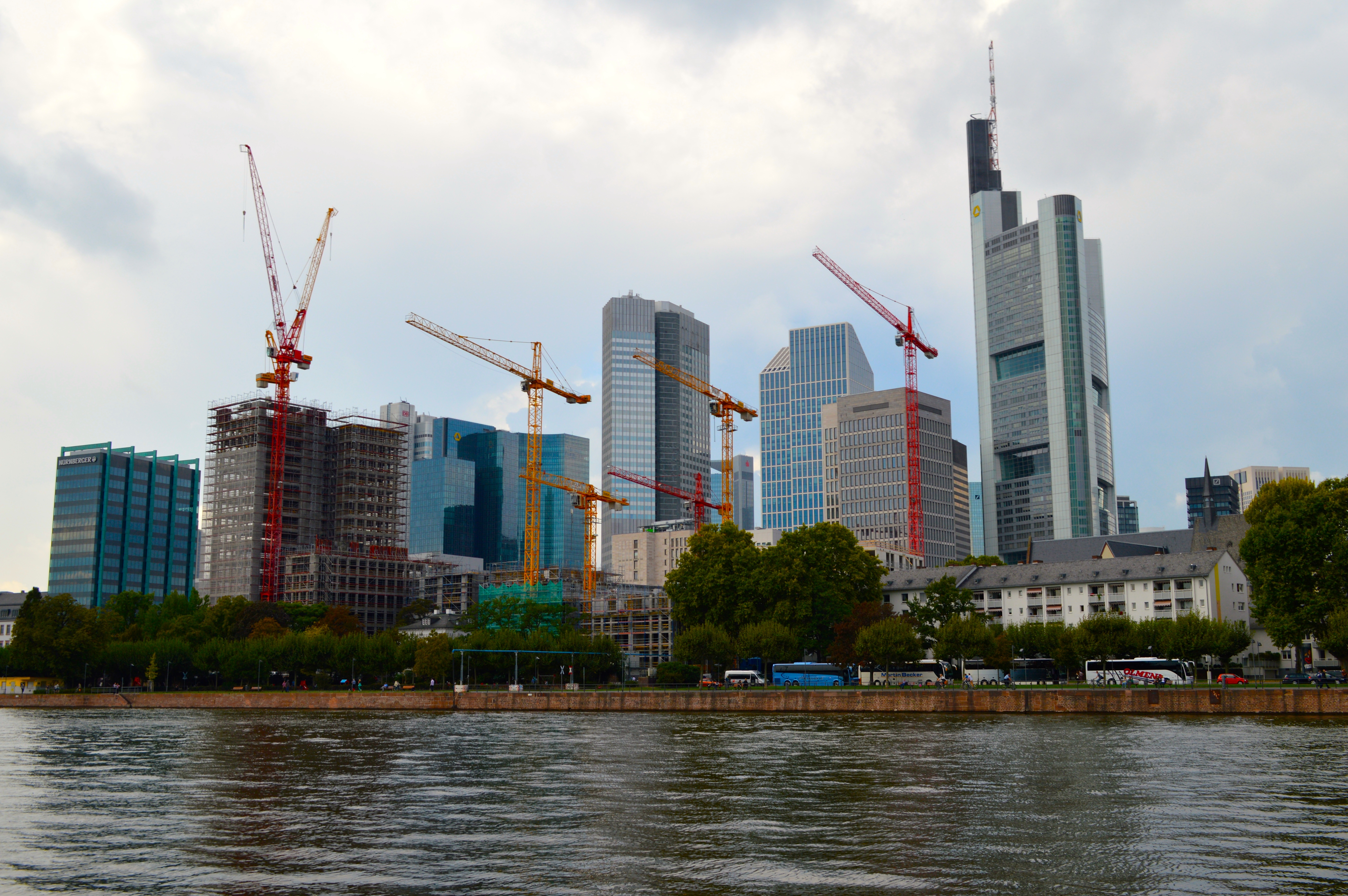 Frankfurt's skyline from across the Main, showing construction cranes